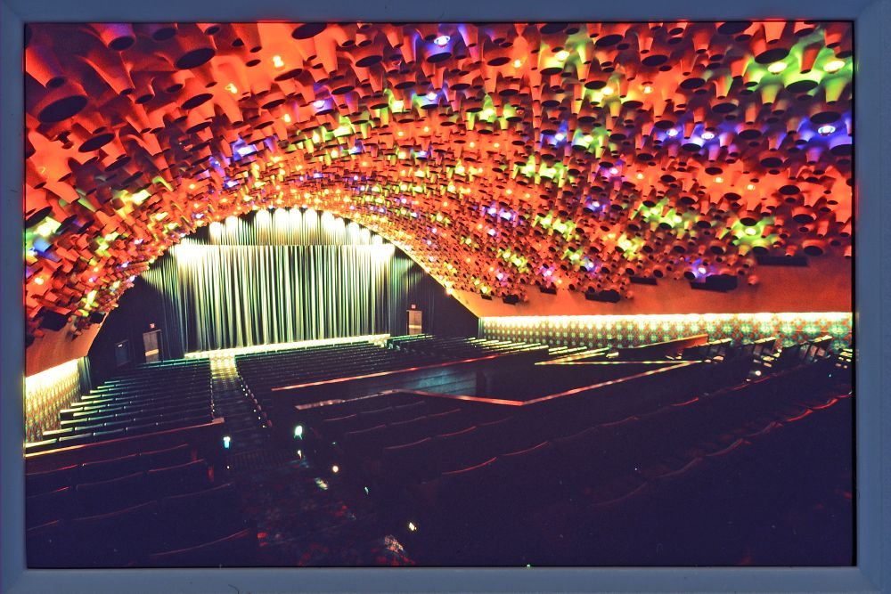 Village Twin Cinemas (1999) - Blue Room